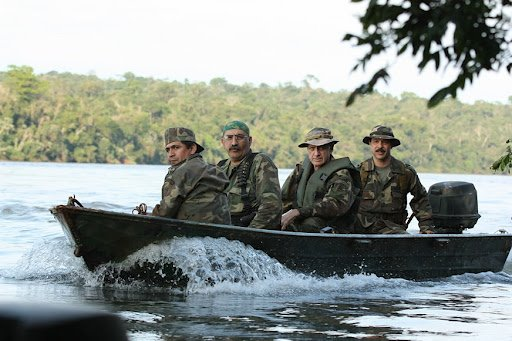 Jorge Cieslik (29 December 1947 – 10 June 2012) was an argentine explorer, photographer, writer and park ranger in the National Park Iguazú (Parque Nacional Iguazú) in Misiones Province, Argentina